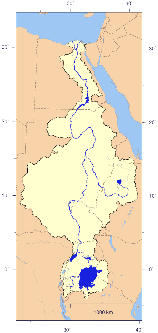 Course and Watershed of the Nile with political boundaries.